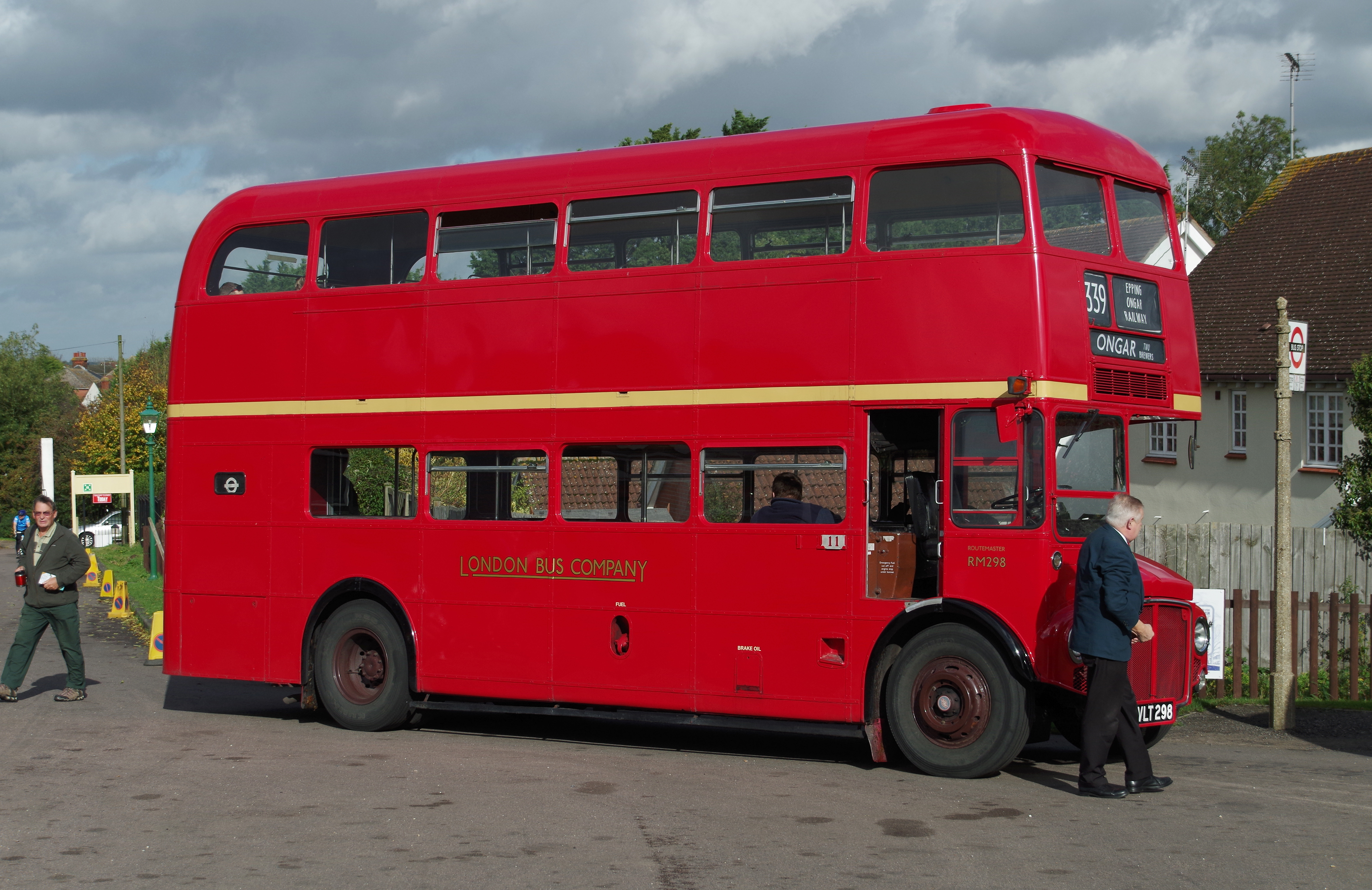 An Epping Ongar Railway-operated Routemaster bus at North Weald railway station.